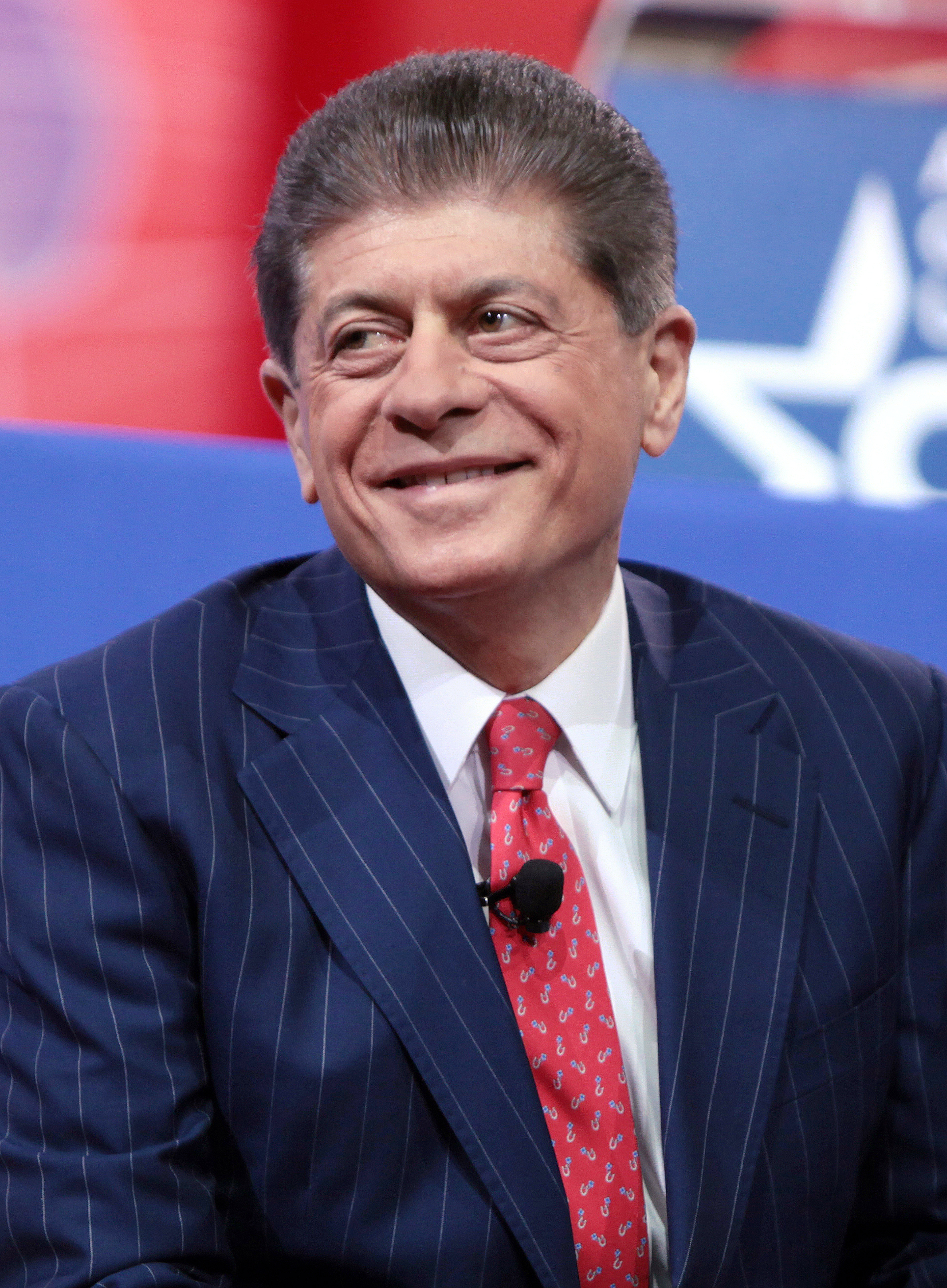 Andrew Napolitano speaking at an event in Washington, D.C.